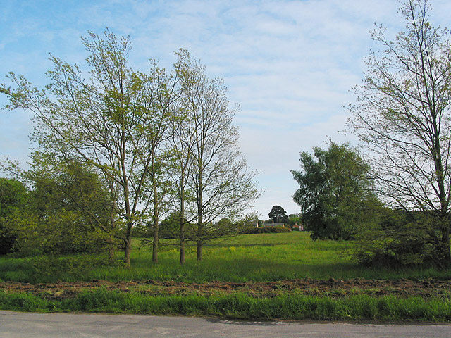 Pennington Common, Lymington. This is quite a substantial green area separating Upper Pennington from Pennington. The road in the foreground is Middle Common Road. Disturbed soil in foreground is due to recent ditching work.